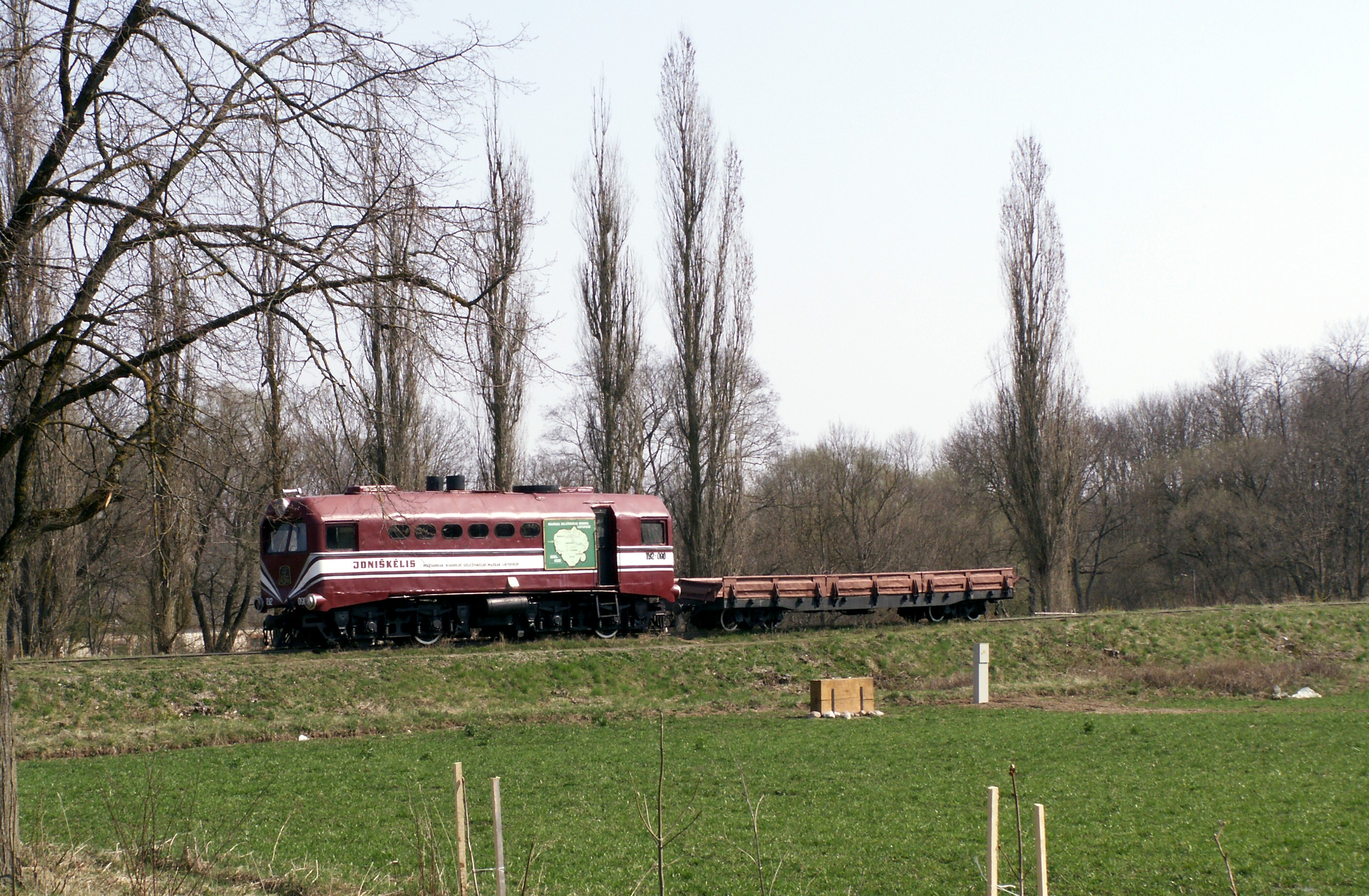 Joniškėlis, Lithuania